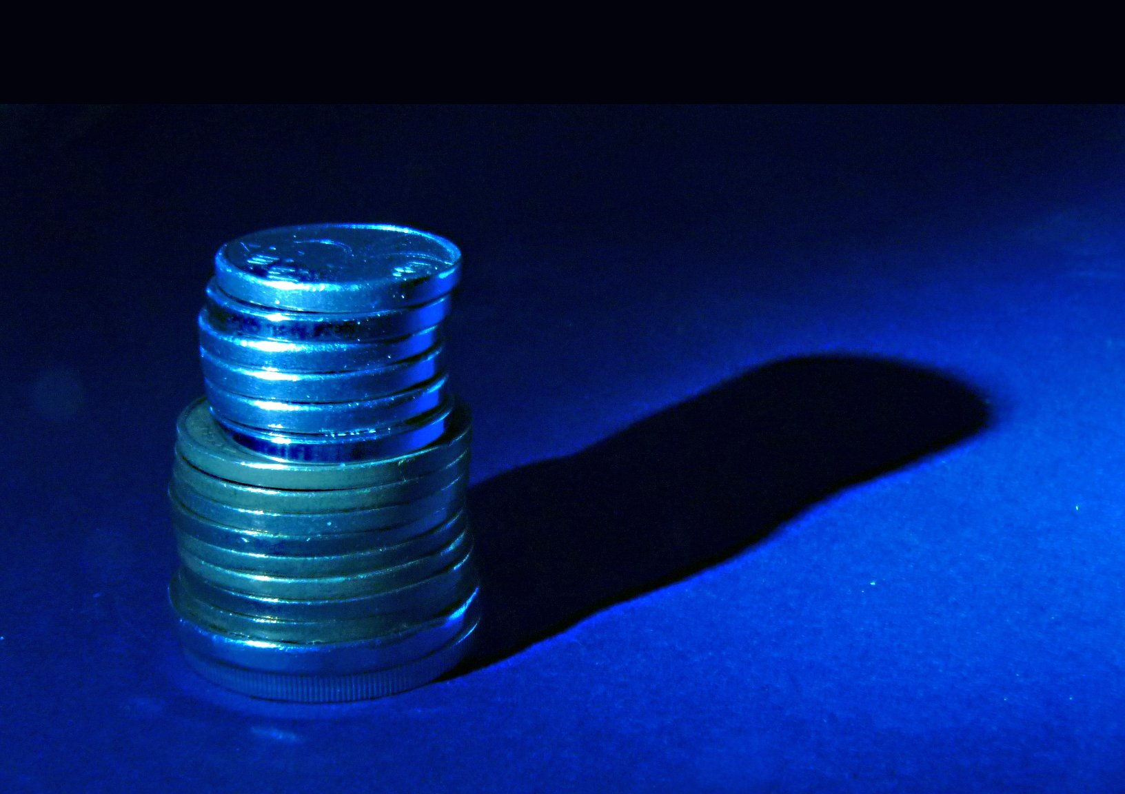 Flashlight Photography with long exposure.